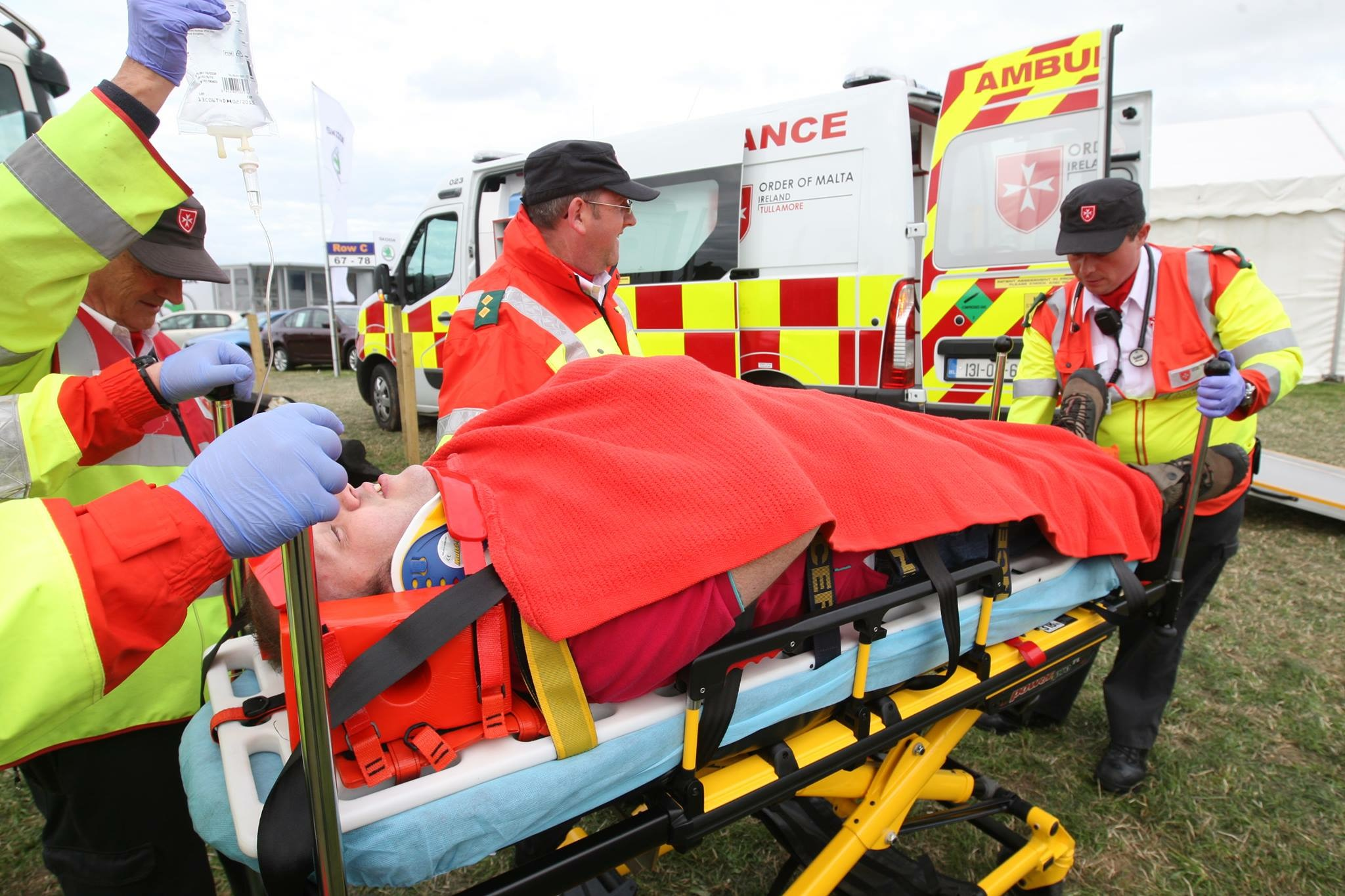 Order of Malta Ireland - Ambulance Corps on Duty